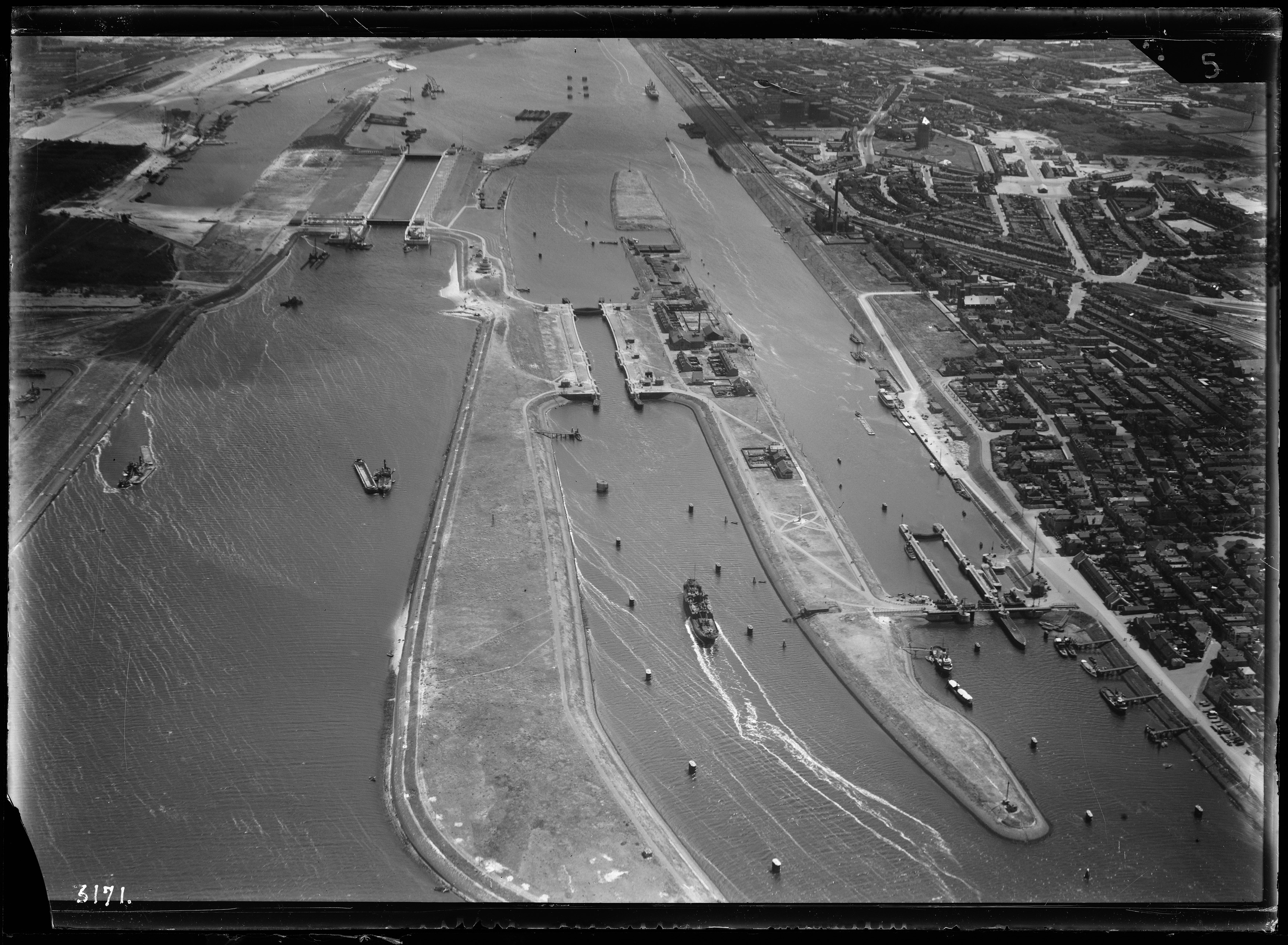 Aerial photograph of IJmuiden, The Netherlands